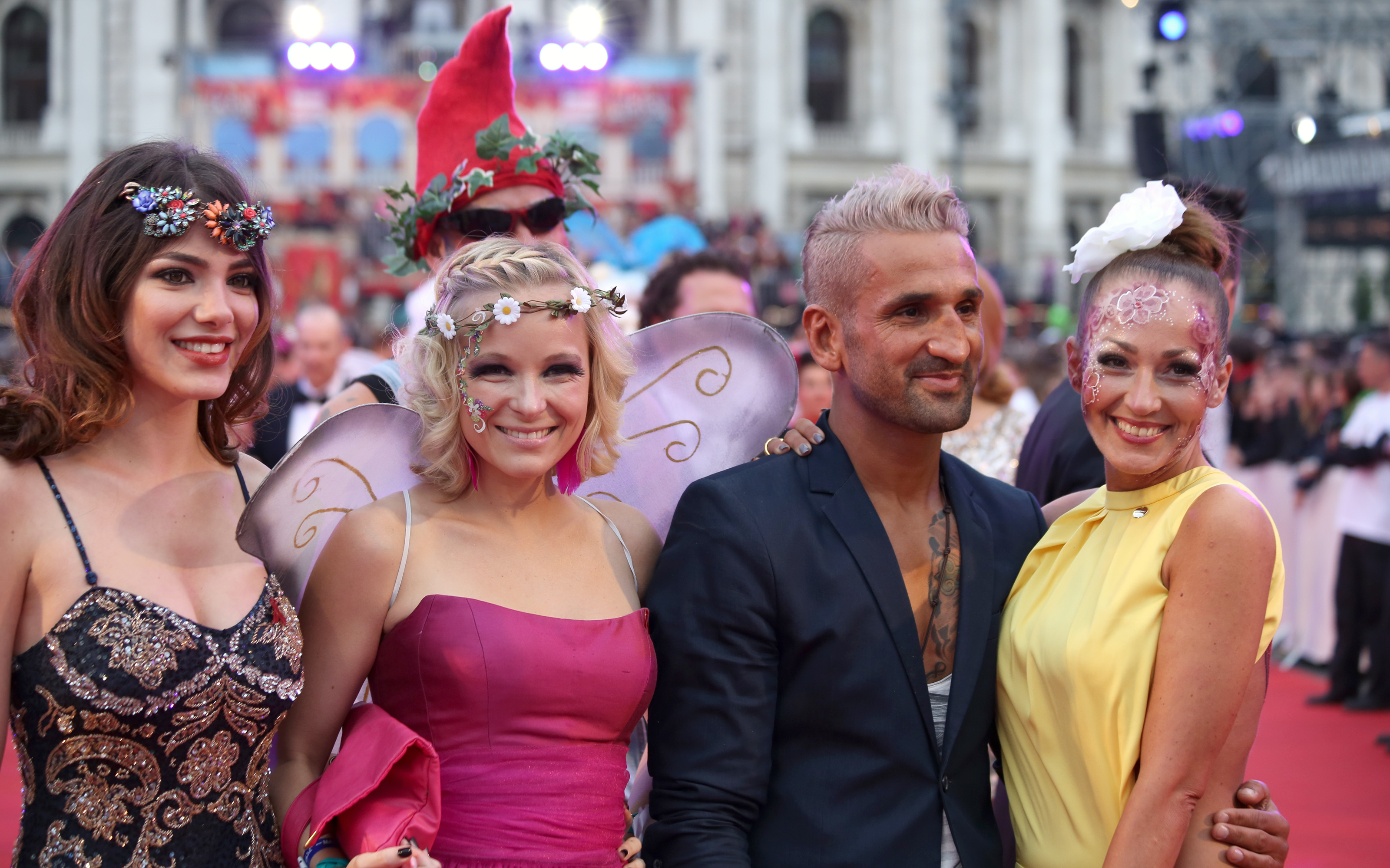 Life Ball 2014, Amina Dagi, Stefanie Meier-Stauffer, Fadi and Ines Merza on the red carpet on the square in front of the Rathaus (Town Hall) of Vienna, Austria.